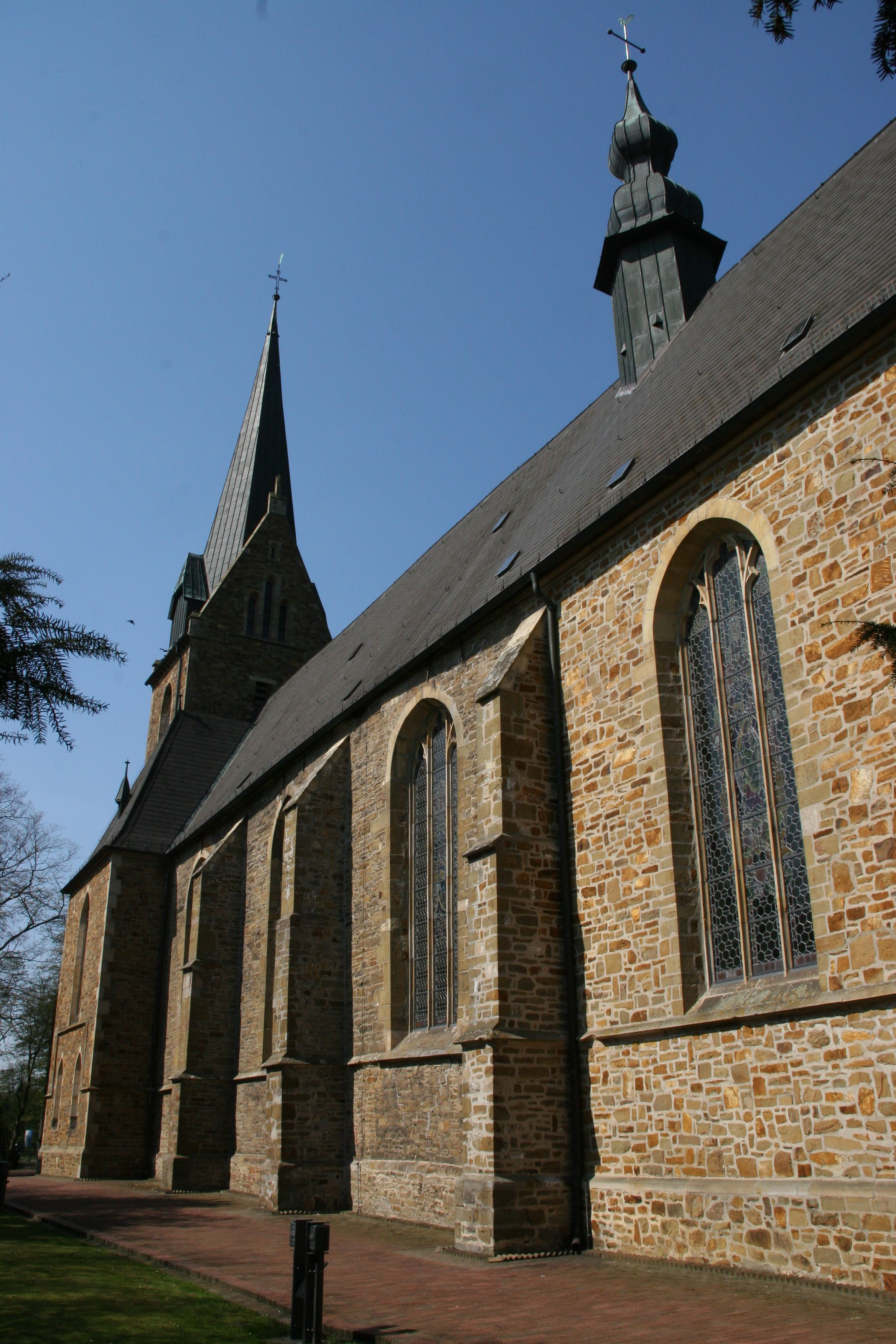 Rieste: Church of the convent Kommende Lage